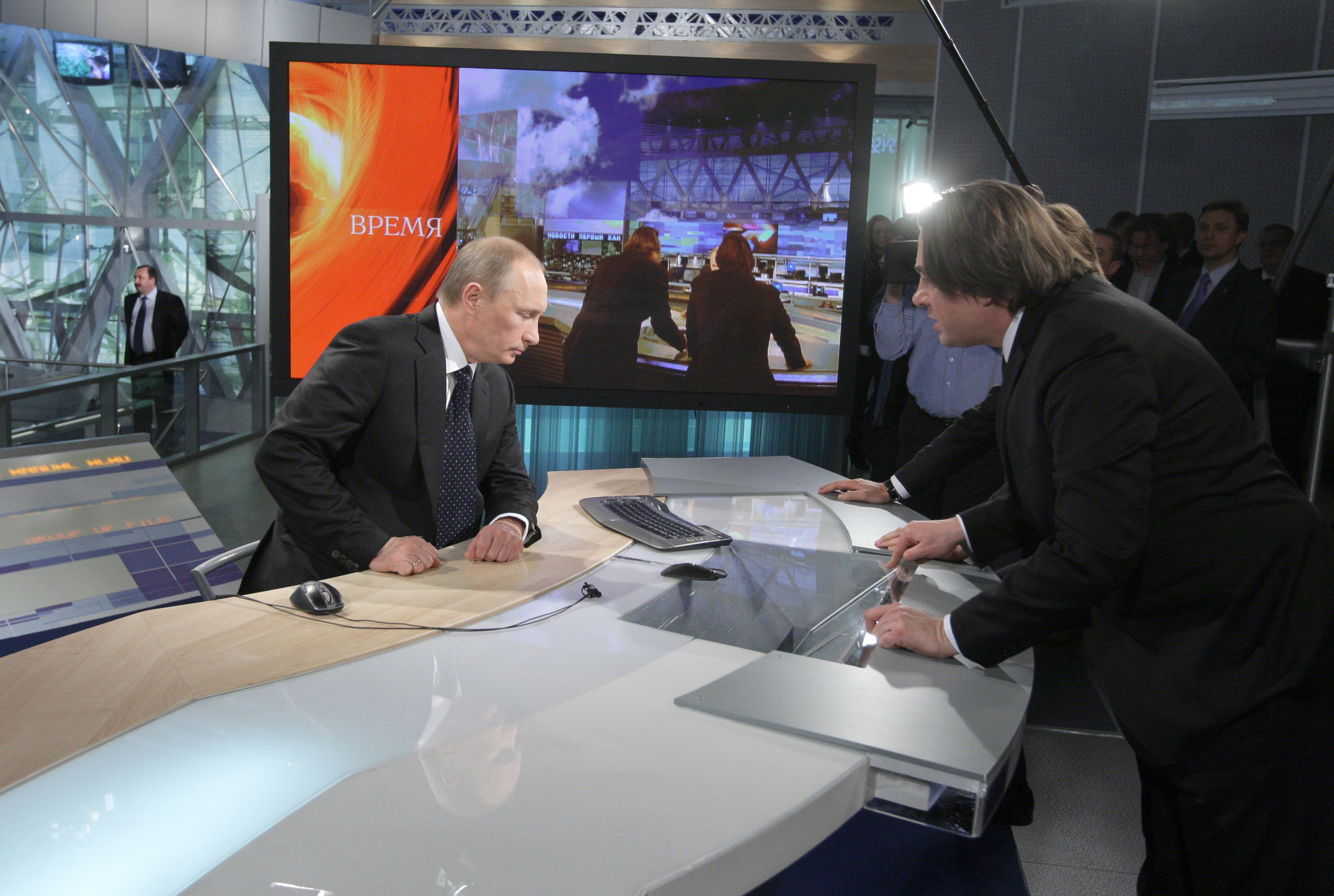 Prime Minister Vladimir Putin speaking with Channel One CEO Konstantin Ernst and Channel One Deputy CEO Kirill Kleimyonov at a news studio at the Ostankino TV station.